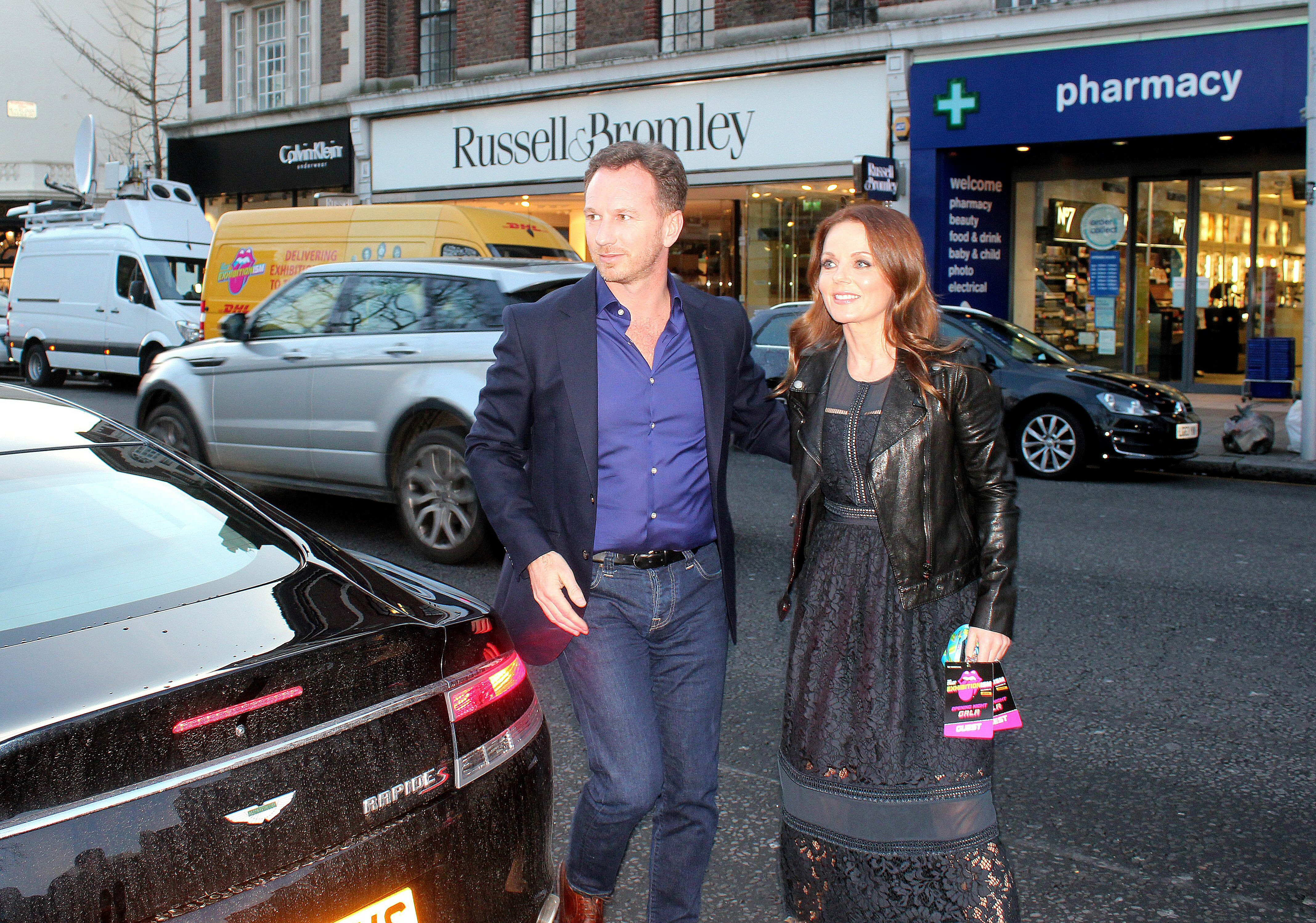 Geri Halliwell (Horner) London April 2016